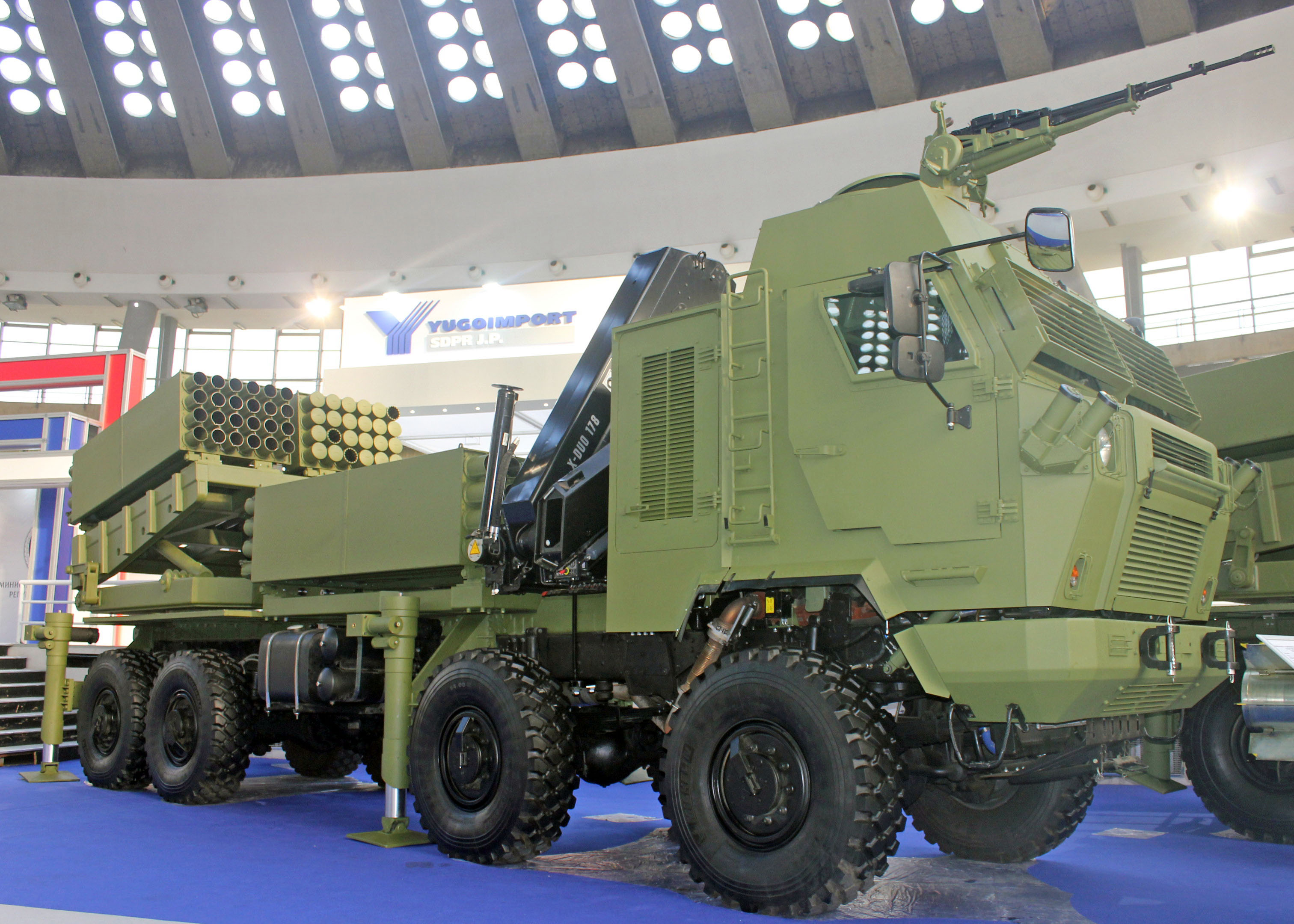 New Serbian modular self-propelled multiple rocket launcher Tamnava developed by Yugoimport SDPR on display at Partner 2019 military fair.